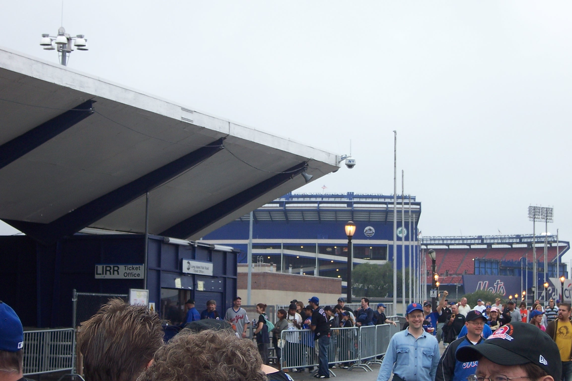 The LIRR Shea Stadium station, after a Mets game has concluded.